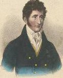 image of Sir Francis Burdett part of the Print Collection, Miriam and Ira D. Wallach Division of Art, Prints and Photographs New York Public Library Published prior to 1844.